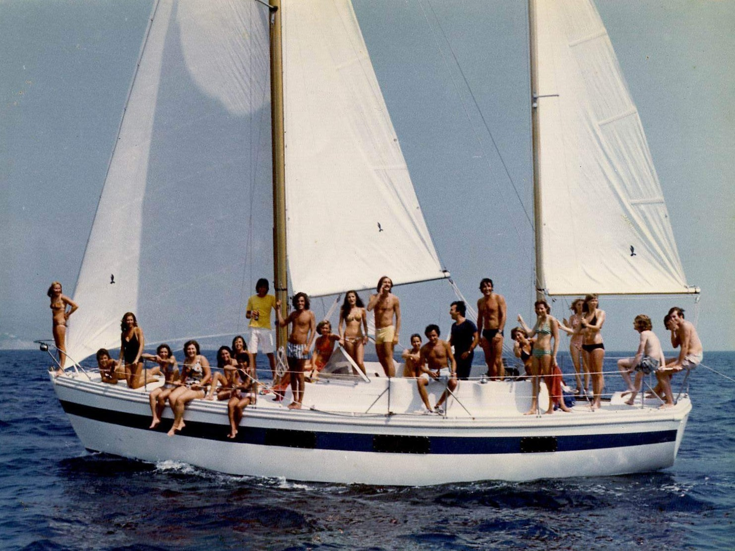 Coronado 35 ketch sailing off the Arenys de Mar shore, taken with a Kodak instamatic in August 1974